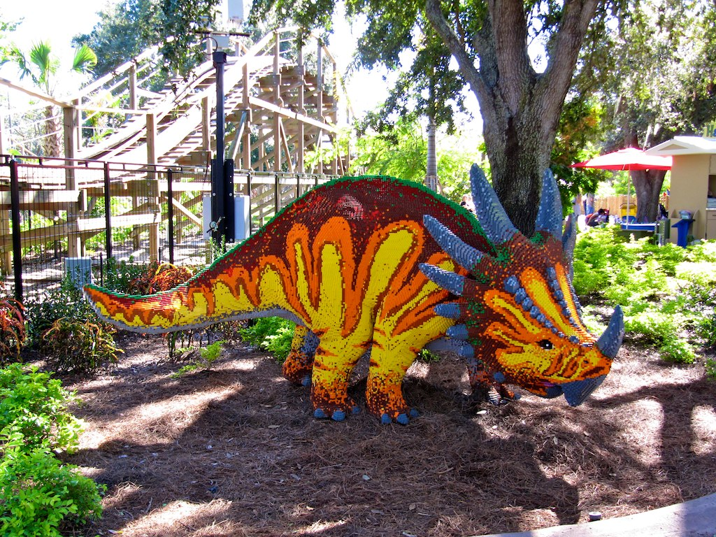 Styracosaurus and Coastersaurus at Legoland Florida